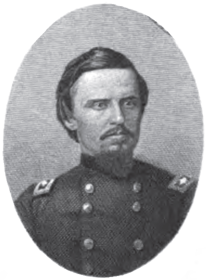 Daniel McCook, Jr.